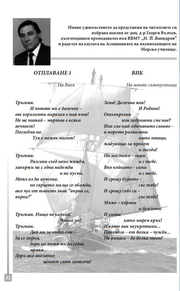 Poems publication